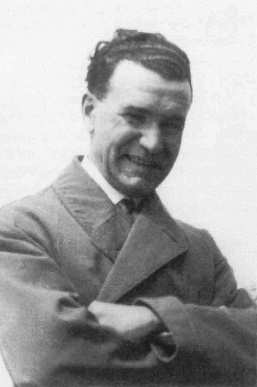 The Italian architect Silvio Gambini.